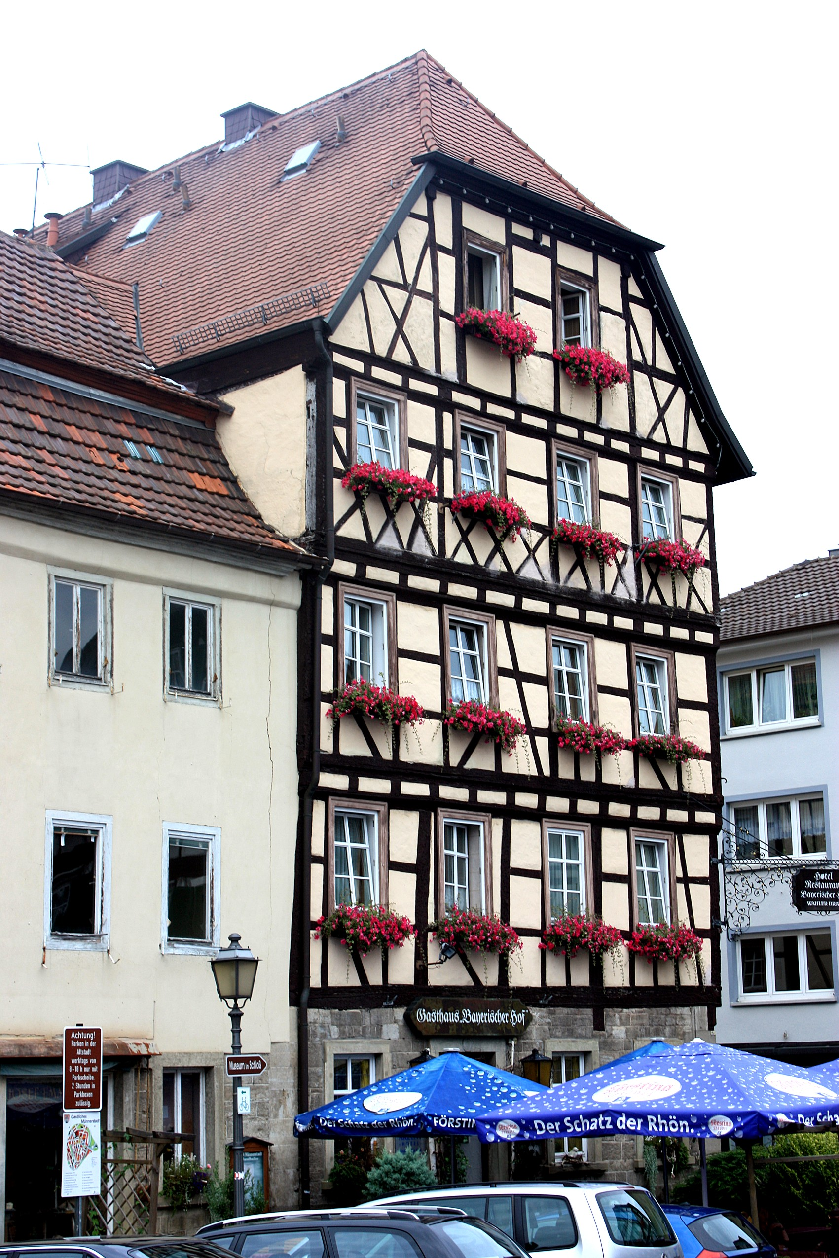 Münnerstadt, the hotel "Bayerischer Hof"